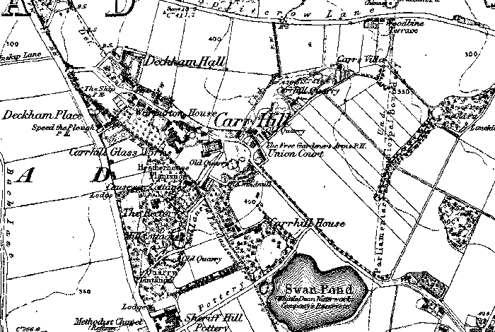 An Old OS Map in 1862 shows Carr Hill in Gateshead, Tyne and wear